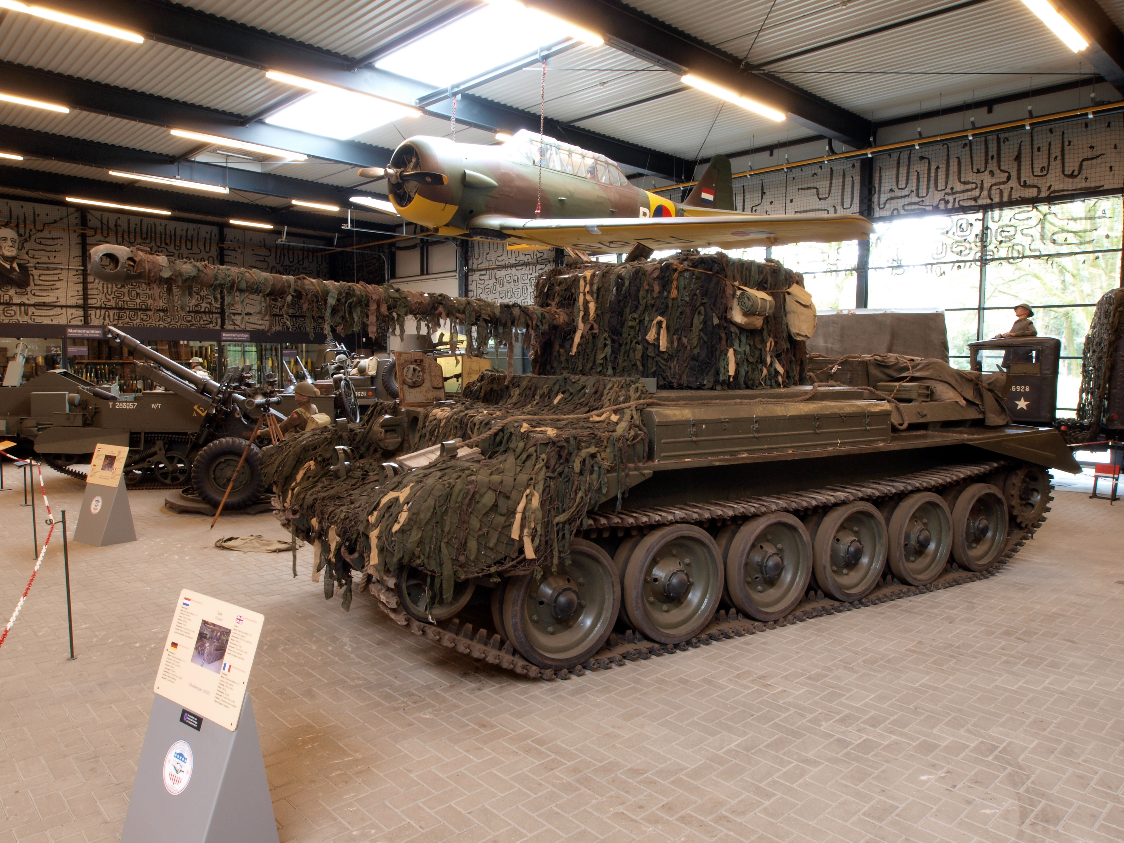 Photographed at the Marshallmuseum - Liberty Park - Oorlogsmuseum Overloon, The Netherlands.